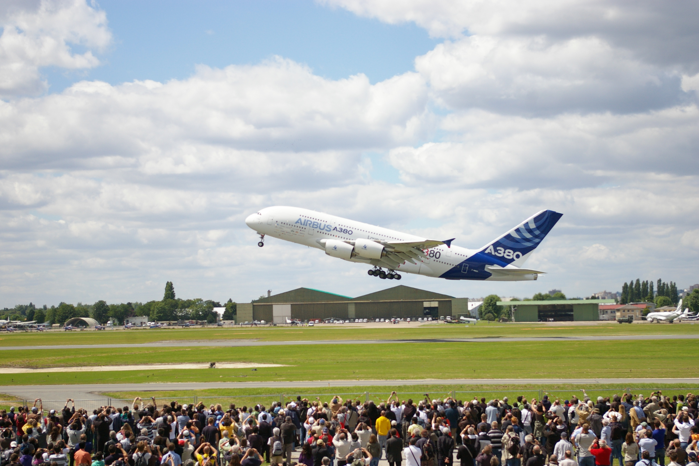 The A380 F-WWDD take off at Le Bourget at Paris Air Show 2011 the Friday.